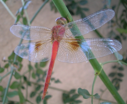 Coral-tailed Cloudwing dragonfly Tholymis tillarga Bangalore Photograph by L. Shyamal, 2006